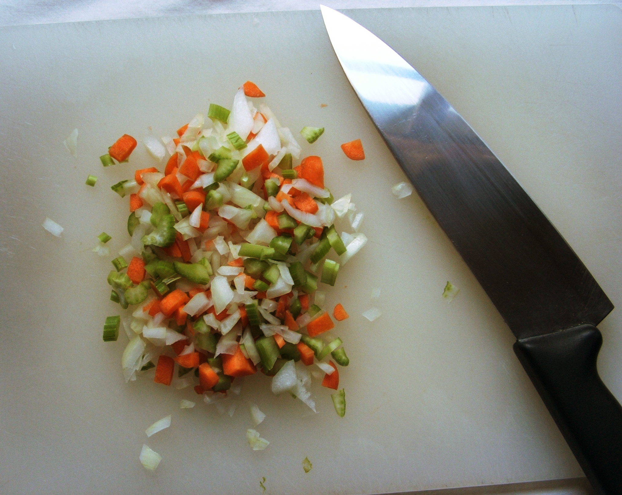 Mirepoix - a combination of onions, carrots and celery used in cuisine